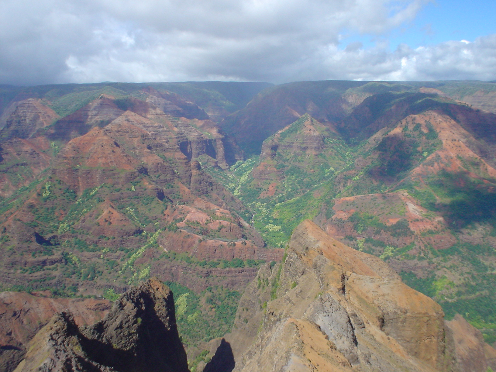 Overlooking Waimea Canyon